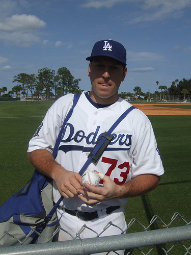 A. J. Ellis 10:07, 29 January 2009 . . Officerfrank . . 375×500 (109 KB)